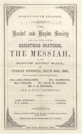 Forty-fifth season. The Handel and Haydn Society will give their annual Christmas oratorio, the Messiah, at the Boston Music Hall, on Sunday evening, Dec'r 30th, 1860 ...